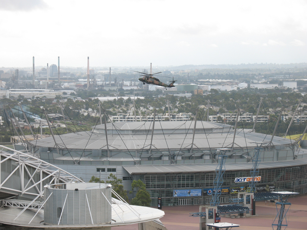 For several hours, four Army Blackhawks practiced low level flying and landing in a sports stadium in Sydney Olympic Park. A very impressive sight! Taken with a Fujifilm FinePix S5600 from the top of the Novotel Sydney Olympic Park.